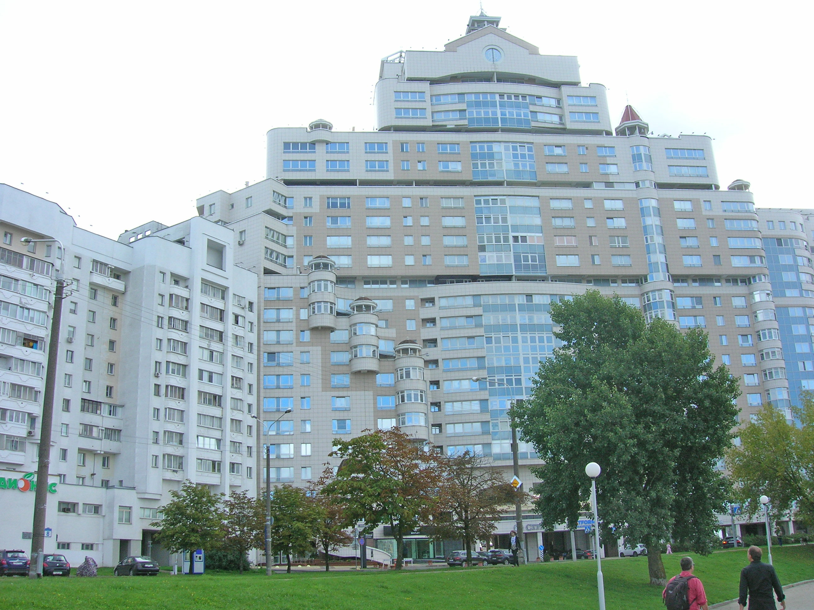 residential building in Staražoŭskaja street